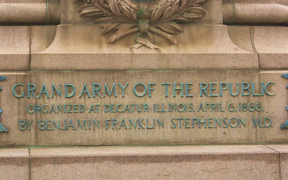 Statue near the U.S. Navy Memorial in Washington D.C., Penn Quarter